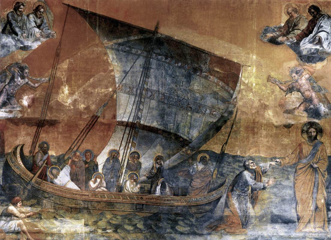 Copy in oils made in 1628 of Giotto's mosaic of 1305-1313